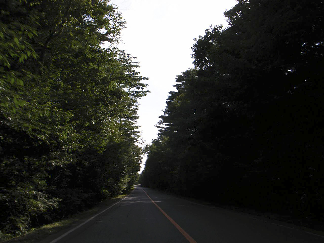 Route 139 in the middle of the Aokigahara forest in Yamanashi, Japan.